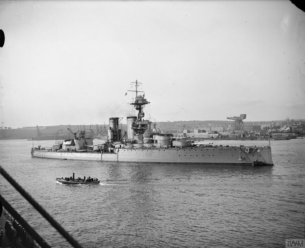 HMS Centurion underway at Rosyth. She is fitted with aircraft platforms on 'B' and 'X' turrets.